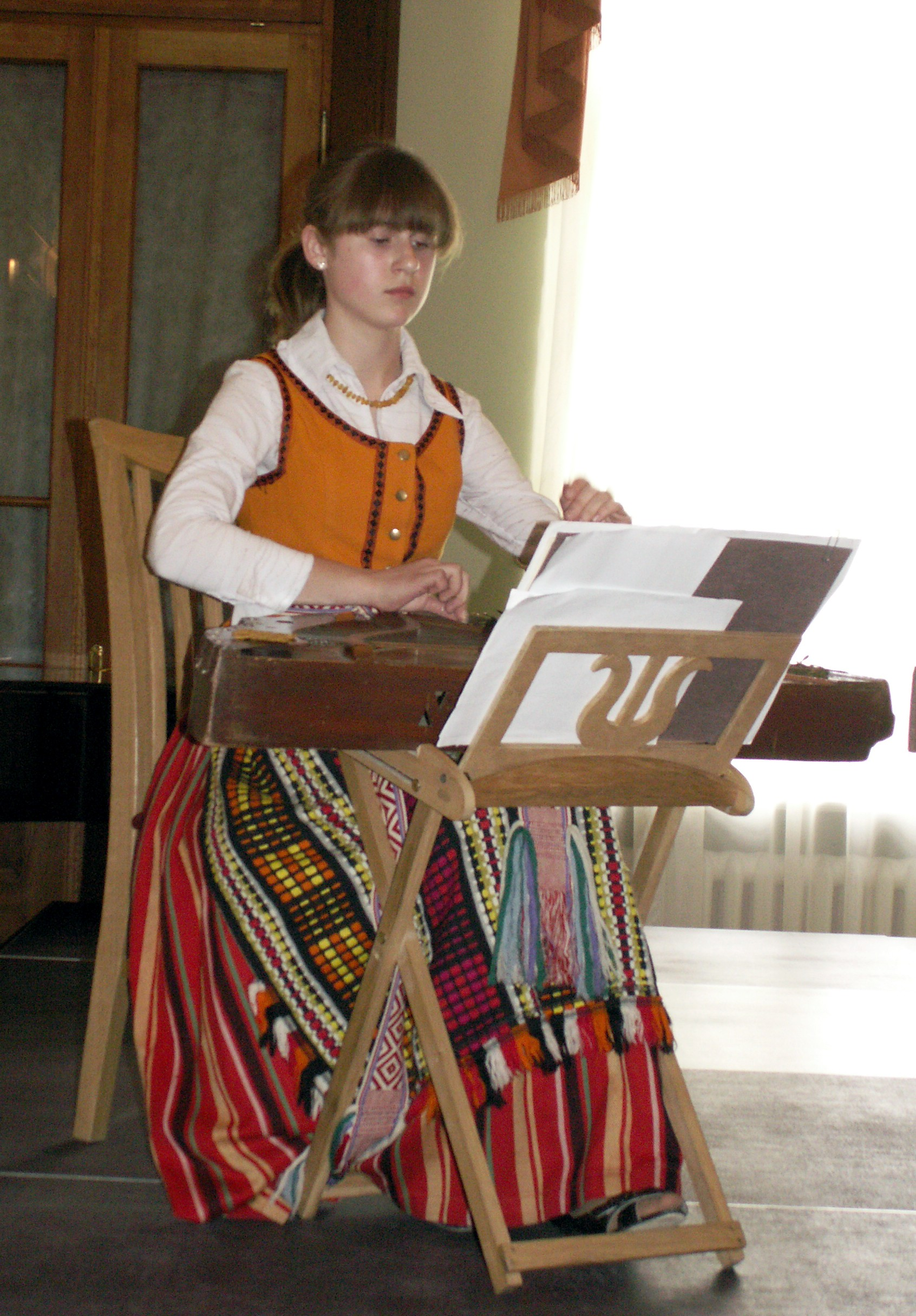 Kanklės player, Lithuania